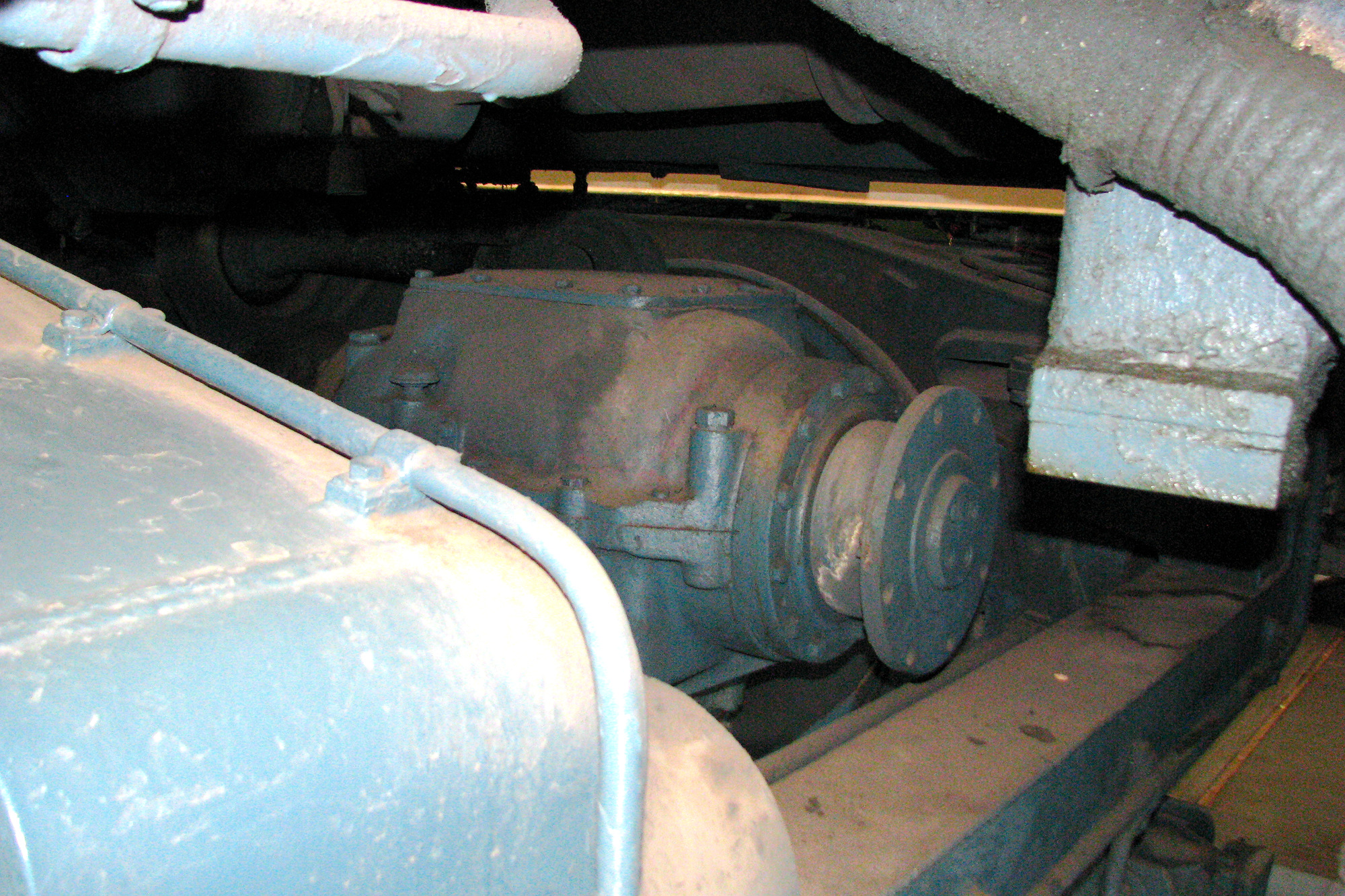 The Henschel ATV 22S axle gear box of China Railways NY5 0003 diesel-hydraulic locomotive.